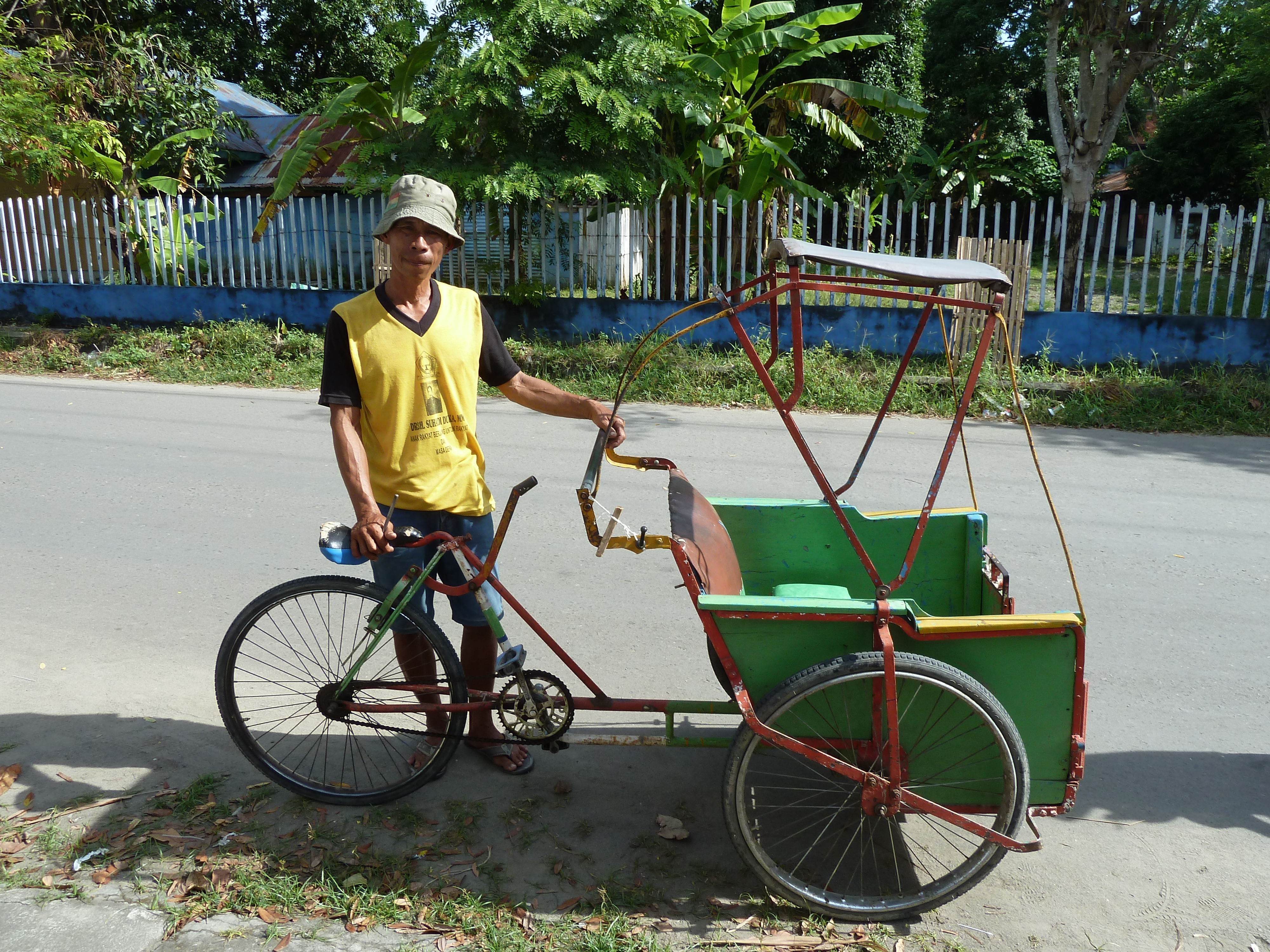 Traditional Becak Driver